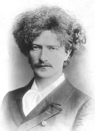 Portrait of Ignacy Paderewski (1860-1941), Polish pianist, composer, diplomat and politician.